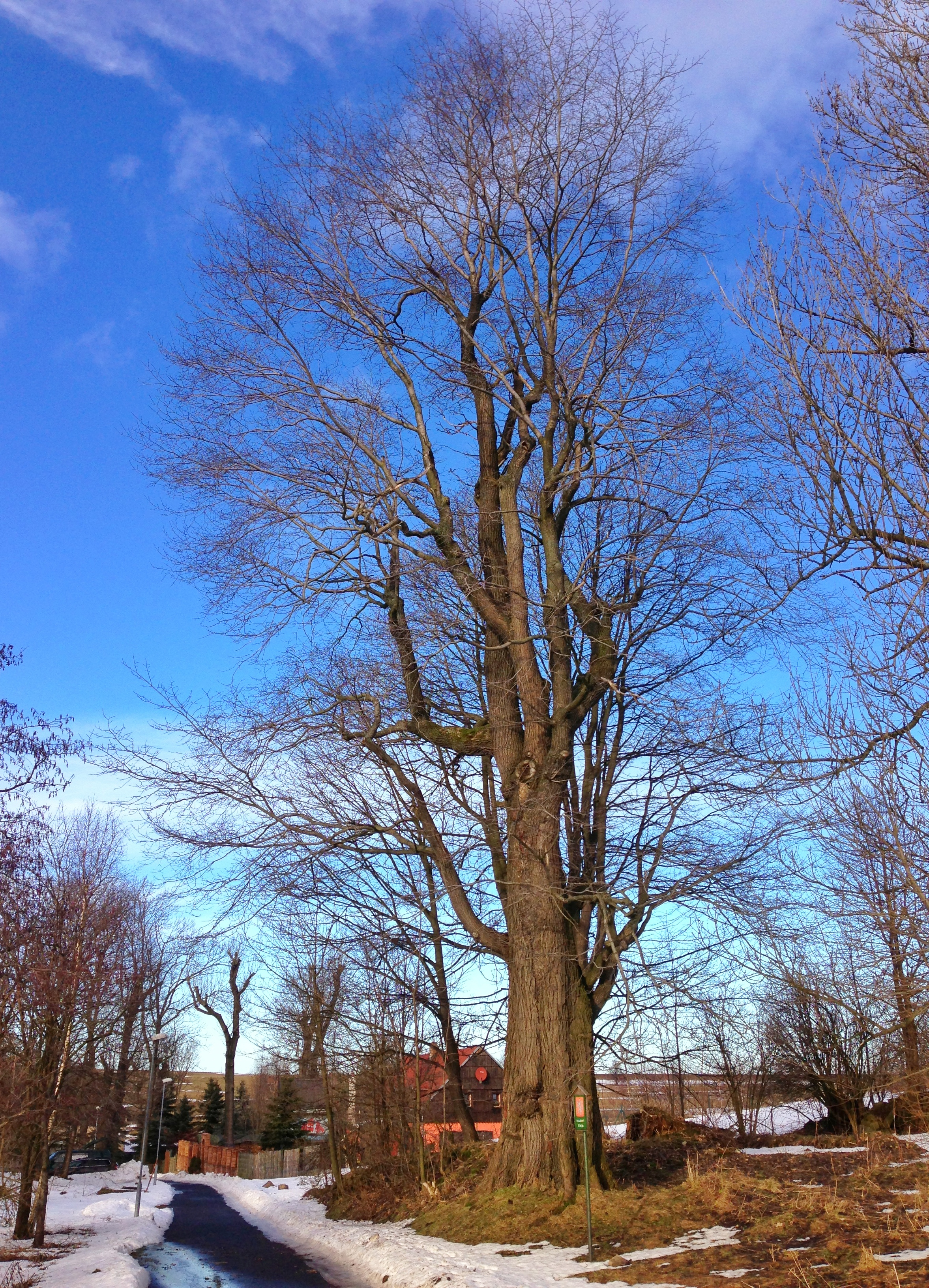 Ulmus glabra, a memorable tree in Krásný Les at Ore Mountains